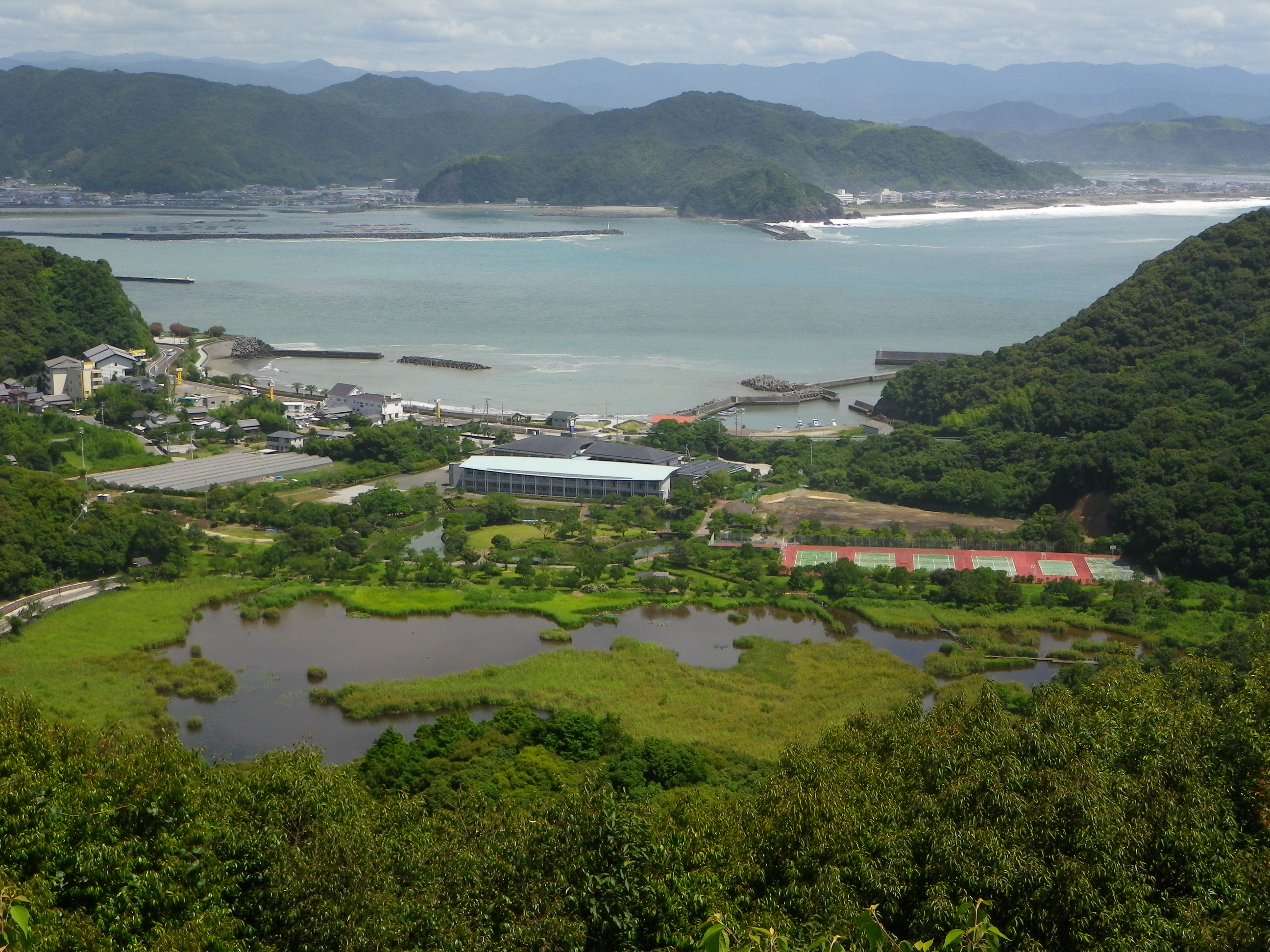 Kanigaike pond (tsunami lake)